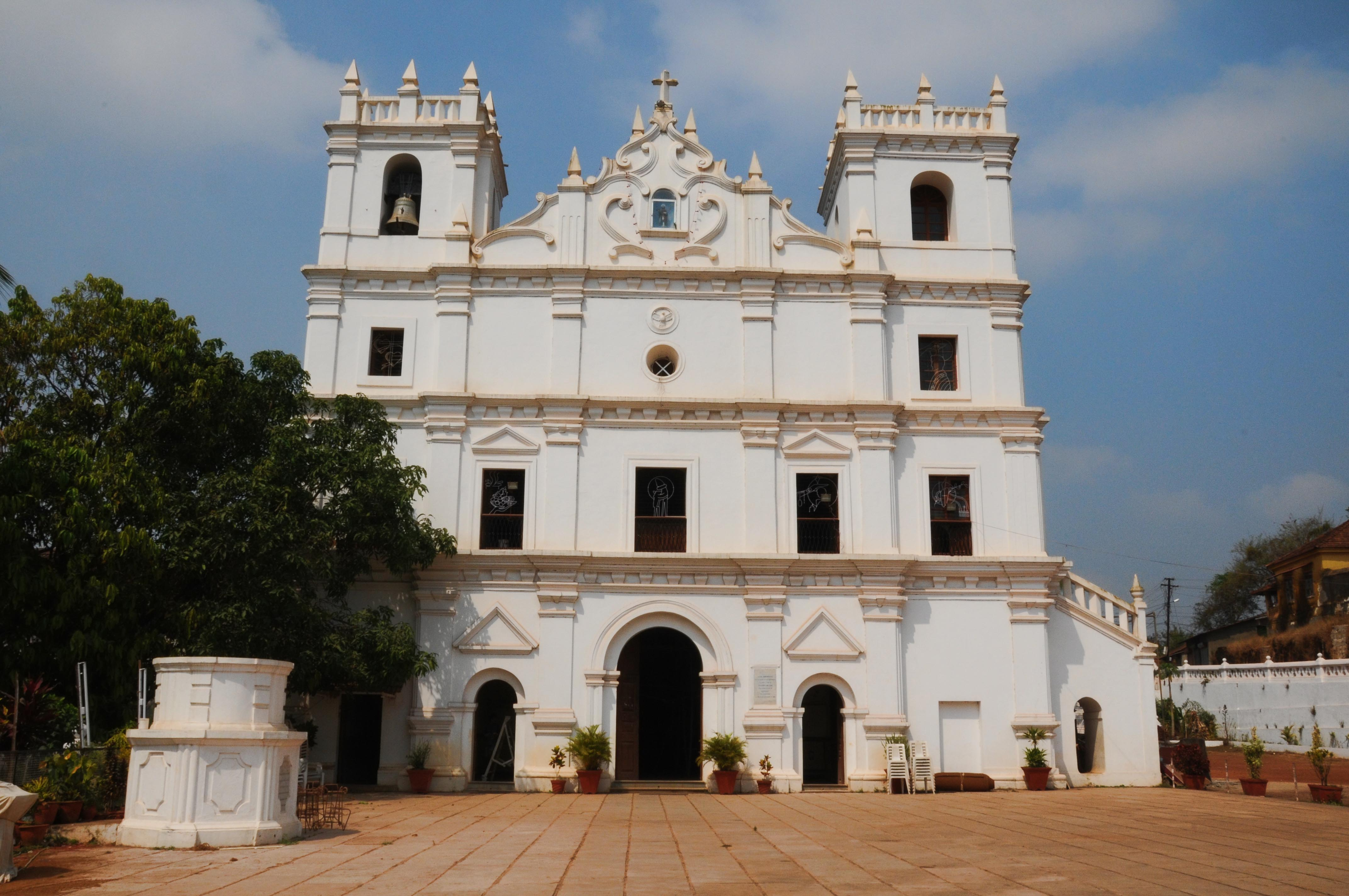 The facade of St. thomas Church, Aldona, Goa.